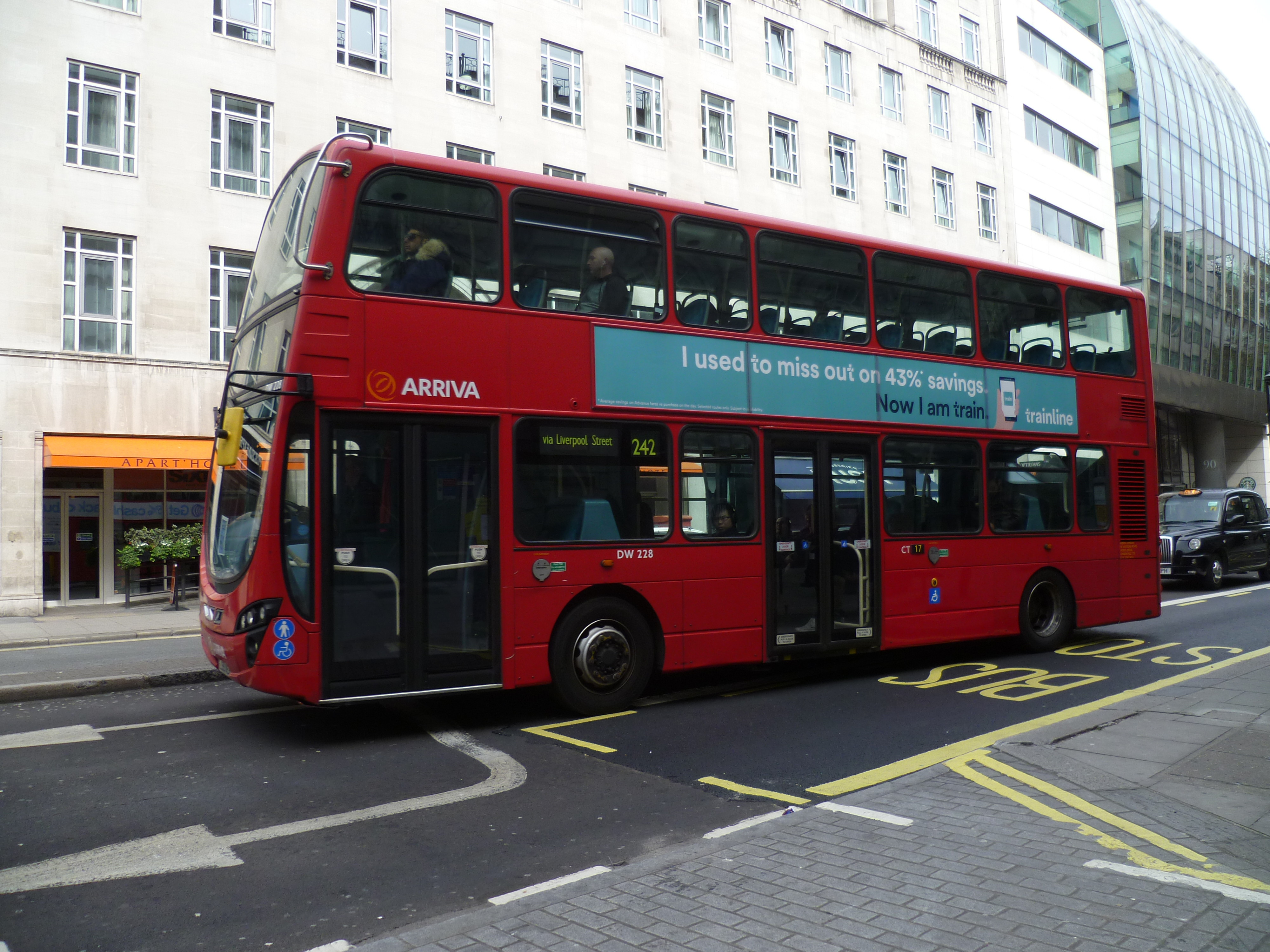 Bus 242 in High Holborn